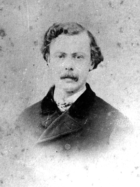 Photographic portrait of Henry Hotze, Swiss-born journalist and promoter of the cause of the Confederate States of America. Photograph courtesy of Encyclopedia of Alabama.